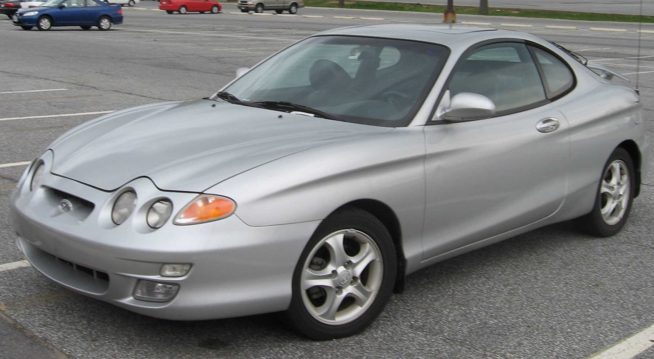 2000-2001 Hyundai Tiburon photographed in College Park, Maryland, USA.